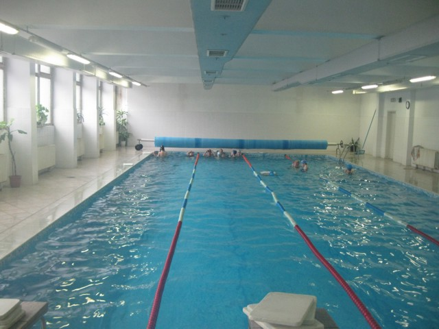 The swimming pool of the French High School in Plovdiv